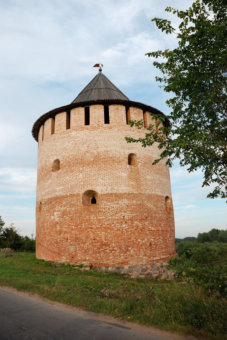 Veliky Novgorod, White Tower of the Detinets.